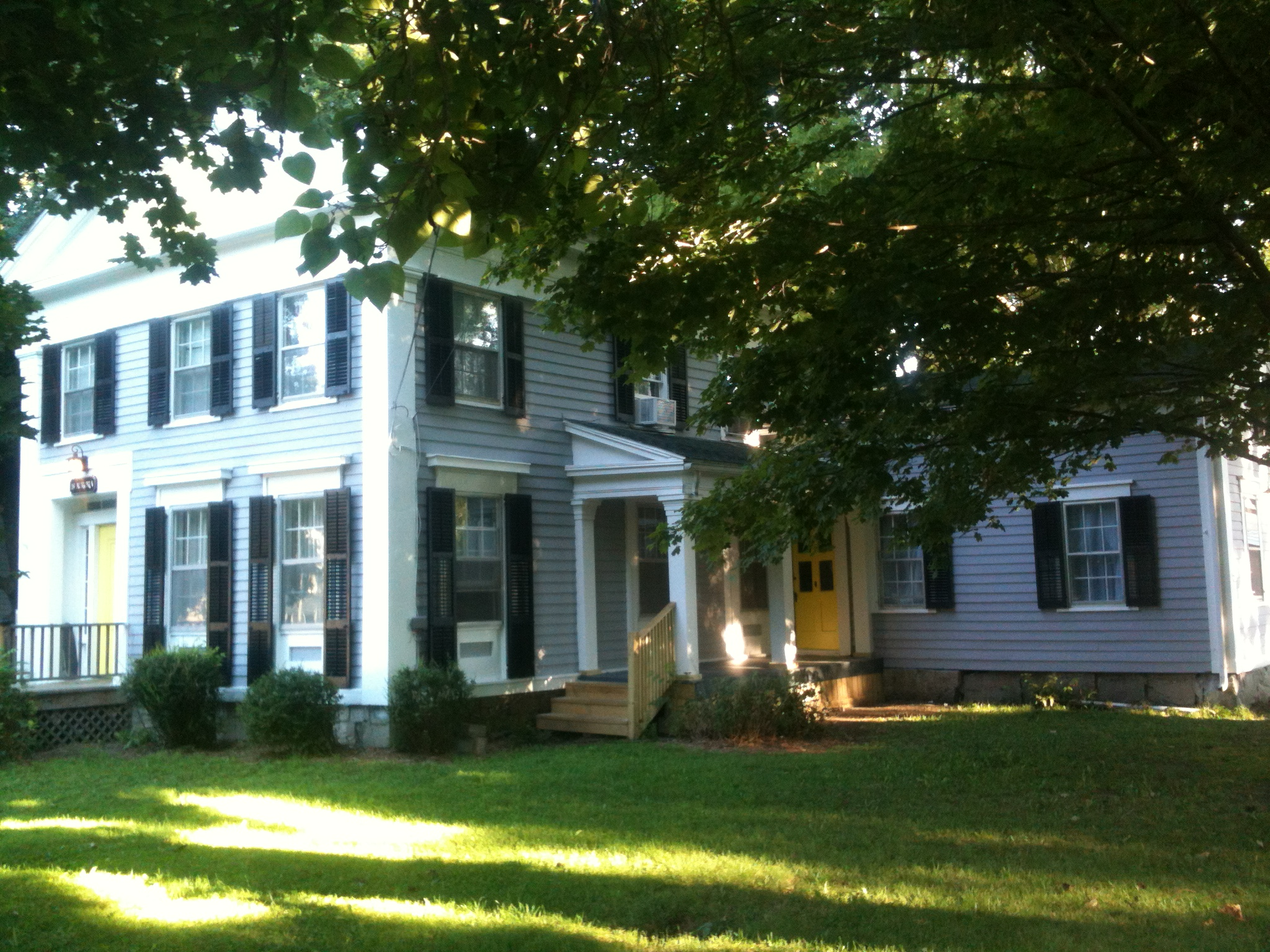 picture of 18 Aurora Street, August 2012, Moravia, NY 13118